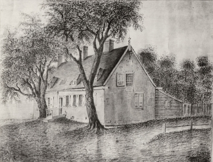 Inscribed in ink on reverse: First Manor House erected by Jeremias van Rensselaer 1658, taken down in 1839, was occupied by Casparus F. Pruyn, who was the last Agent of the entire manor. This photograph made from a pencil sketch of Major Francis Pruyn, made in 1839. Inscribed in pencil on reverse: "Watervliet" Signed in pencil on front: Augustus Pruyn.